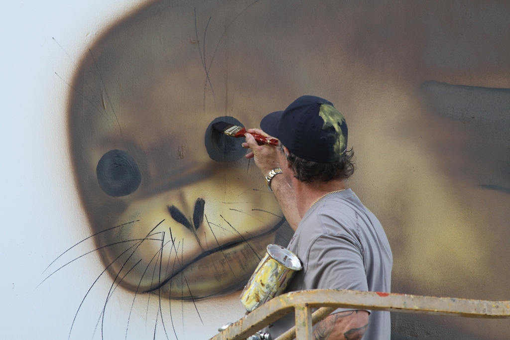 The artist Wyland, who goes by only one name, paints a mural on Charlie Barracks, a former military barracks still in use on Midway. Midway Atoll National Wildlife Refuge, Papahānaumokuākea Marine National Monument January 2012 Photo: Pete Leary/USFWS